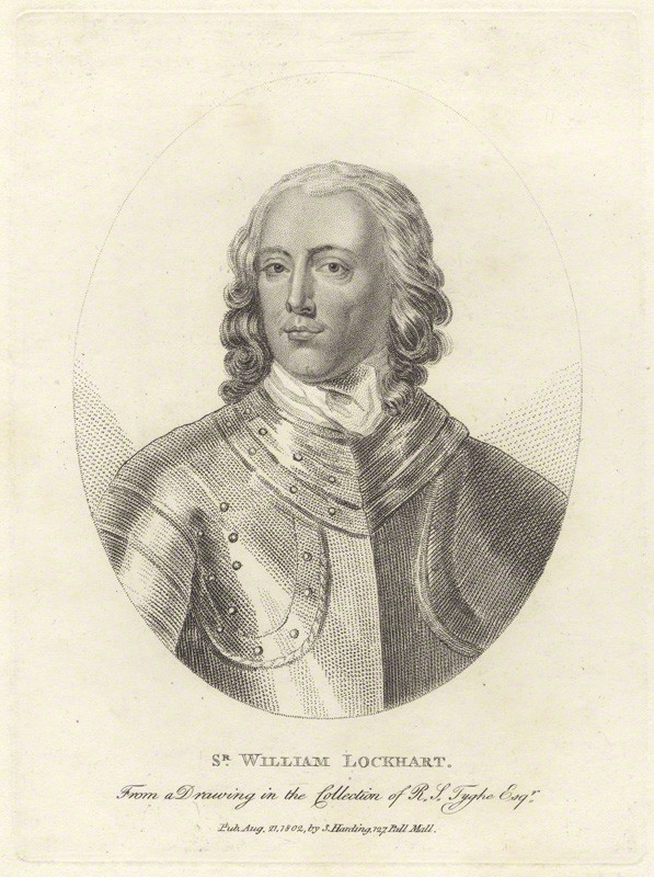 Portrait of William Lockhart of Lee (1621–1675), Scottish soldier and diplomat.